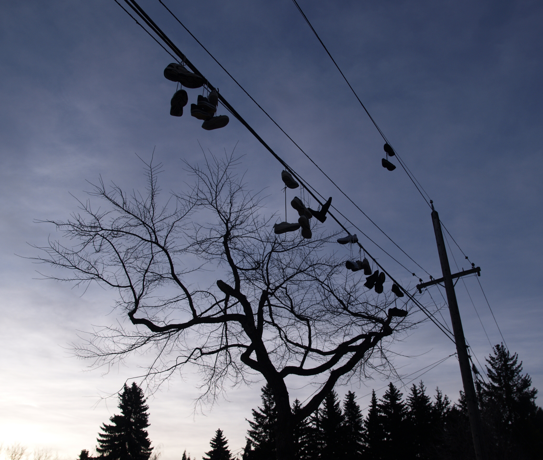 Shoes hanging on a power line near the Windsor Park neighborhood of Edmonton, at 9 am.